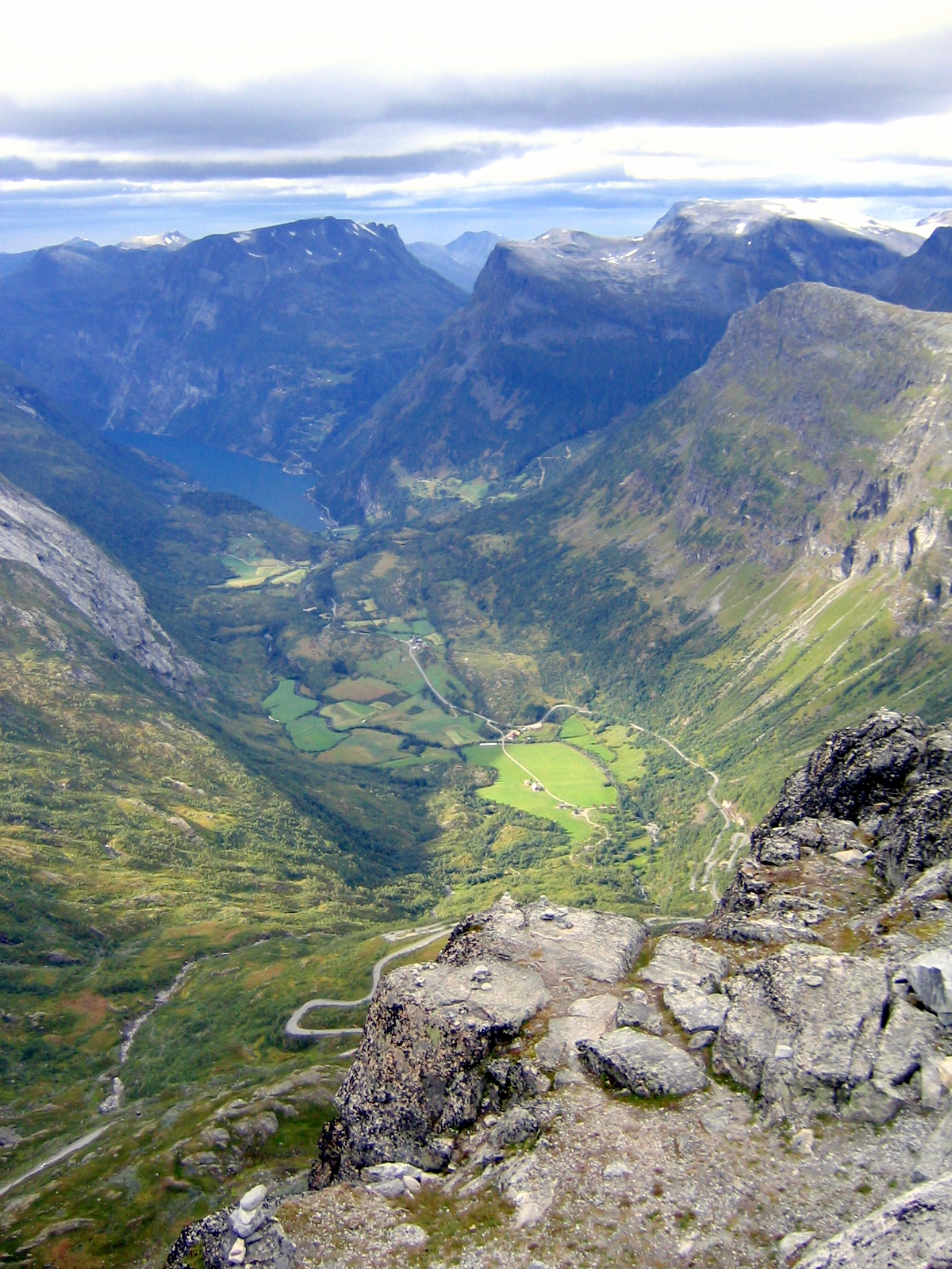 View from Dalsnibba towards Geirangerfjorden